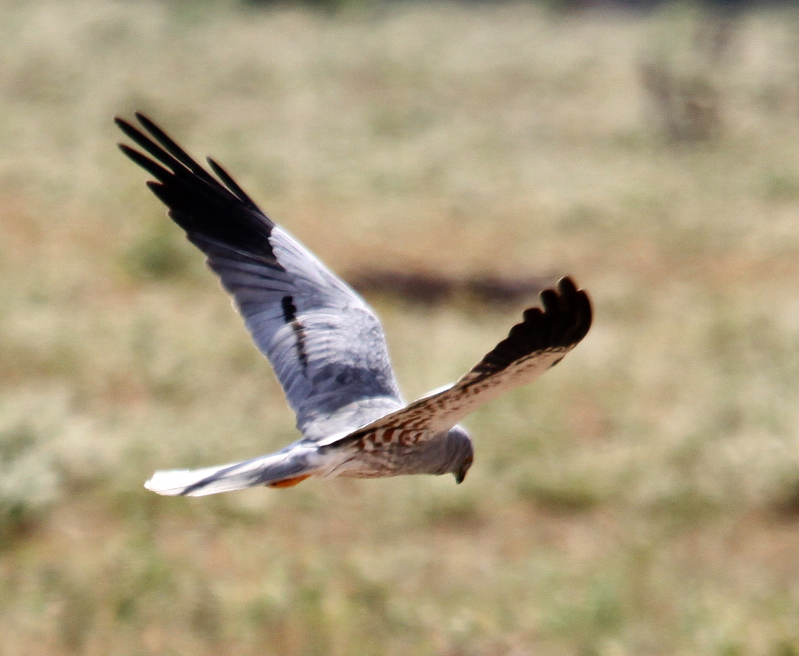 Montagu's Harrier (Circus pygargus) male, Tsavo East National Park, Kenya